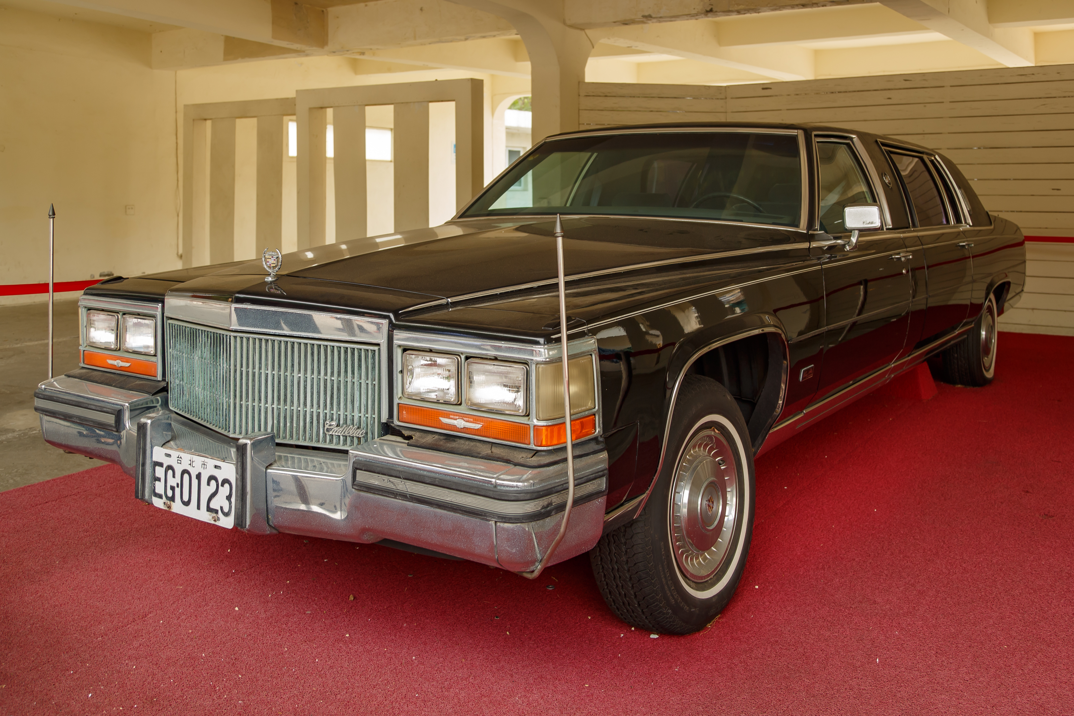 Taipei, Taiwan: The Cadillac of Soong Meiling in the Shilin Official Residence of Chiang Kai-Shek